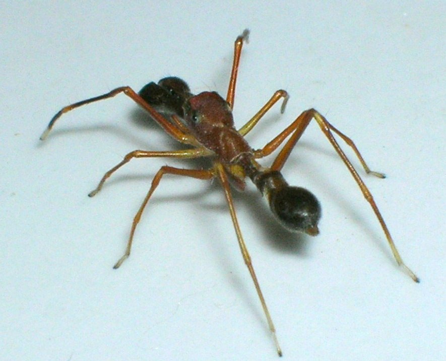 An Antmimicking spider, another view, Found this one in my office toilet.